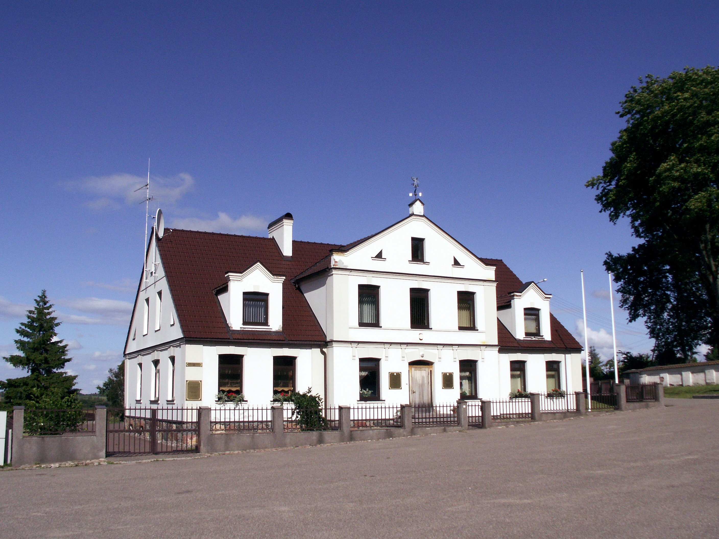 Kražiai church